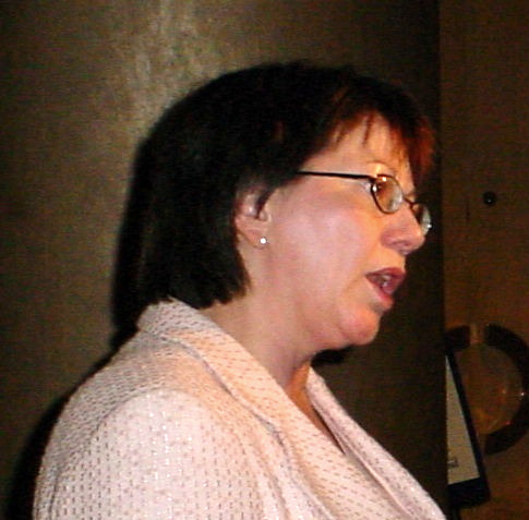 Seattle, Wash., July 15, 2005 -- Canadian Deputy Prime Minister and Minister of Public Safety and Emergency Preparedness, the Honorable Anne McLellan fields media queries after announcing a series of measures to improve the management of border operations at the PNWER Summit. FEMA NEWS PHOTIO/Mike Howard